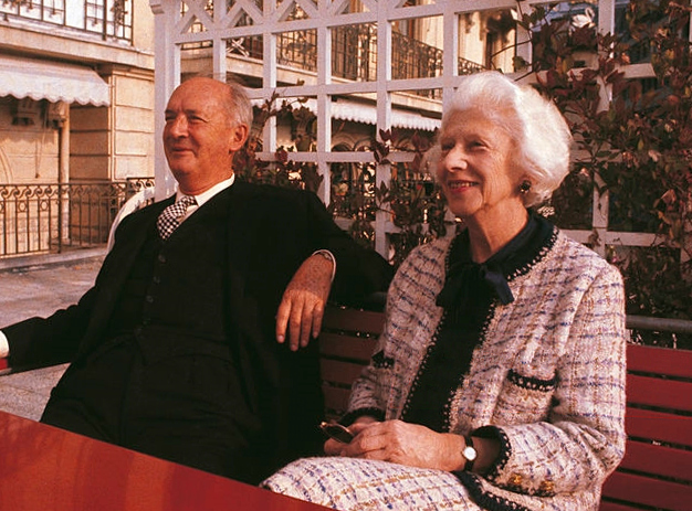 Vladimir and Vera Nabokov, Montreux, October 1969